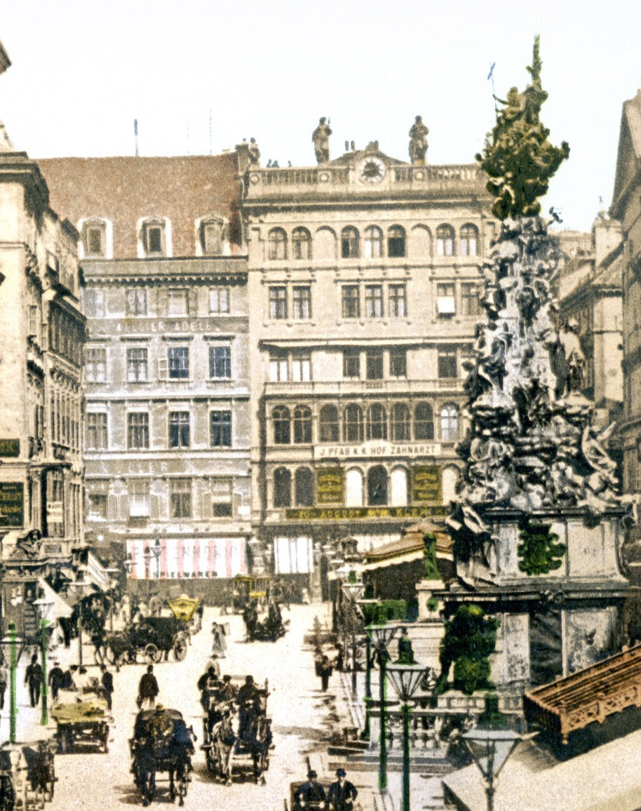 Photochrom print by Photoglob Zürich, between 1890 and 1900. From the Photochrom Prints Collection at the Library of Congress More photochroms from Austria-Hungary | More photochrom prints [PD] This picture is in the public domain